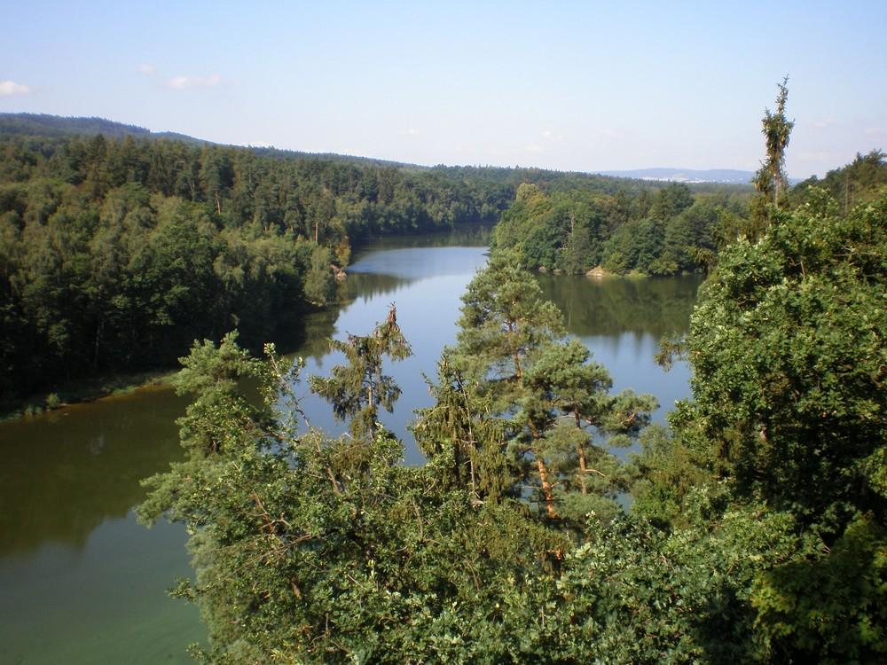 Skalka Reservoir in Cheb (view from watch-tower Chebská Stráž.